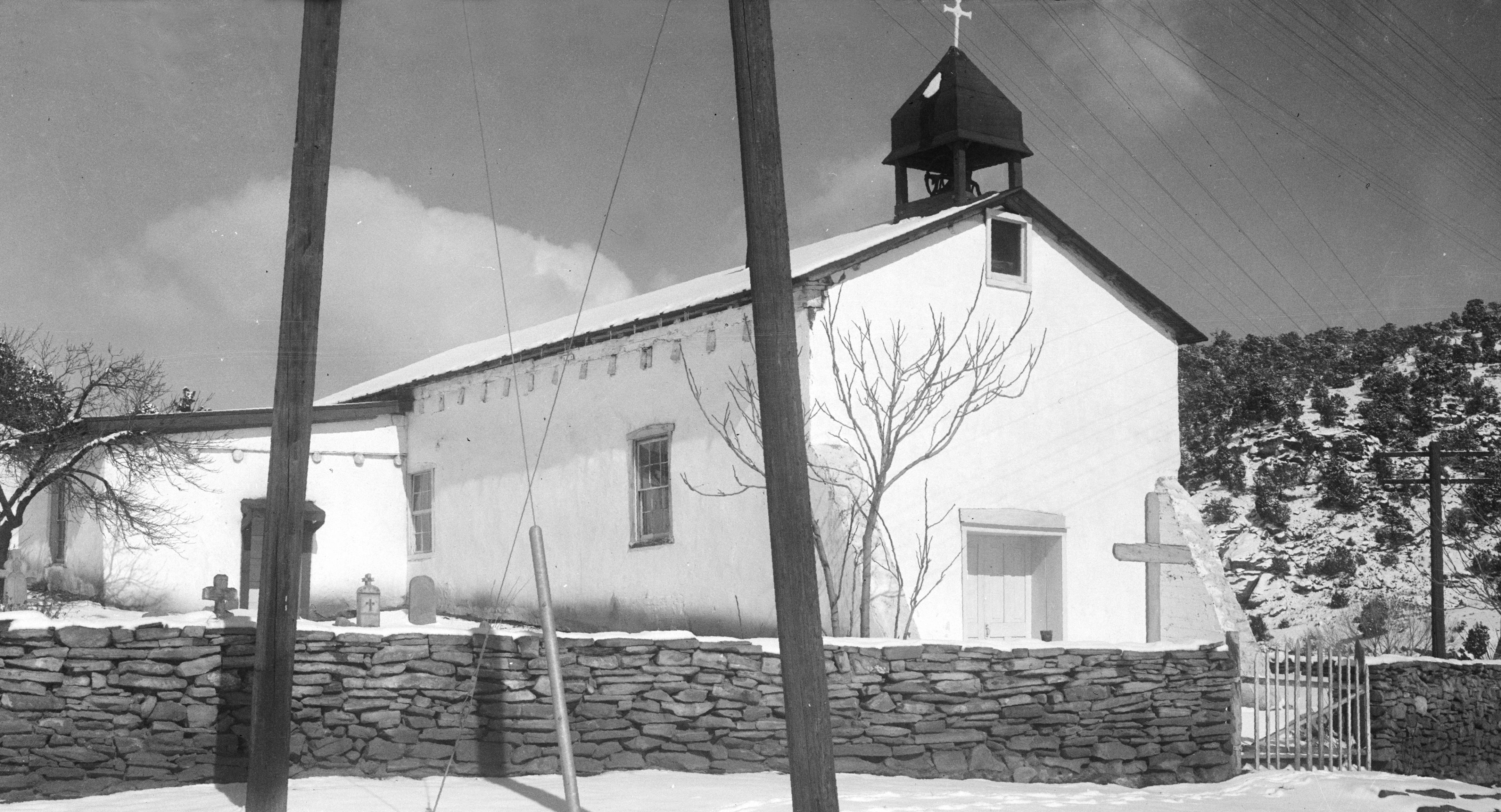 Front of the Nuestra Senora de Luz Church — located off Interstate 25 at Canoncito, in New Mexico. Built of adobe in 1880, it is listed on the National Register of Historic Places in Santa Fe County. Image courtesy of the federal HABS—Historic American Buildings Survey of New Mexico project (rotated and retouched).